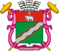 Krasnokamsk (Perm krai), coat of arms (1998)